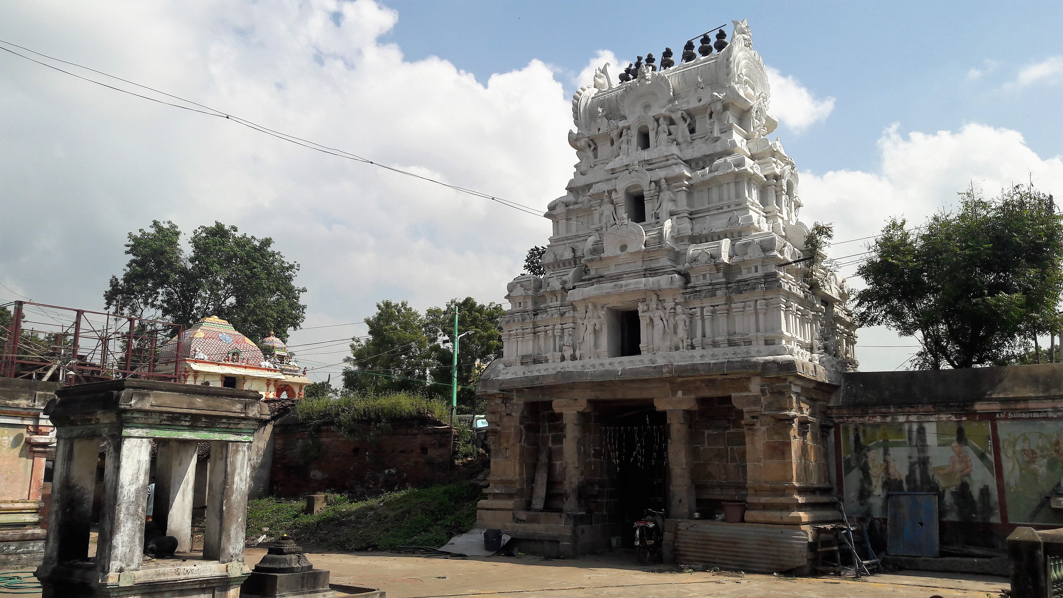 Thoovainathar Temple